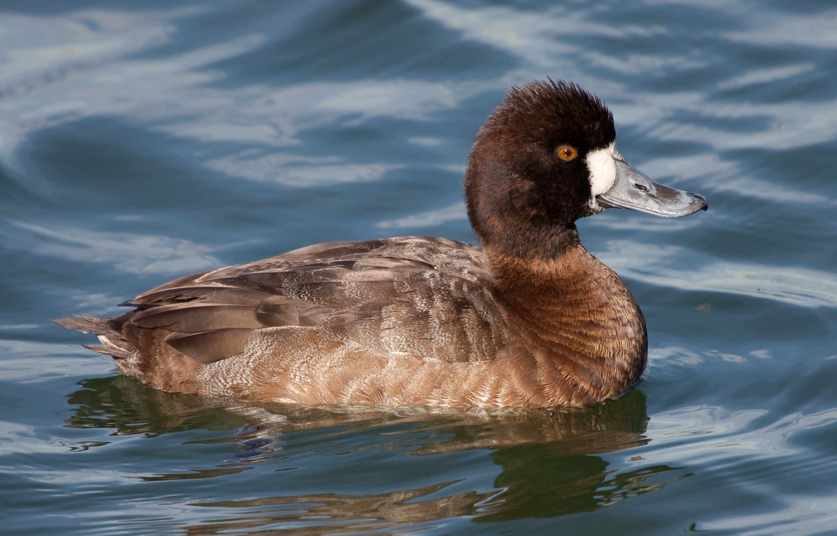 Adult female Lesser Scaup (Aythya affinis)